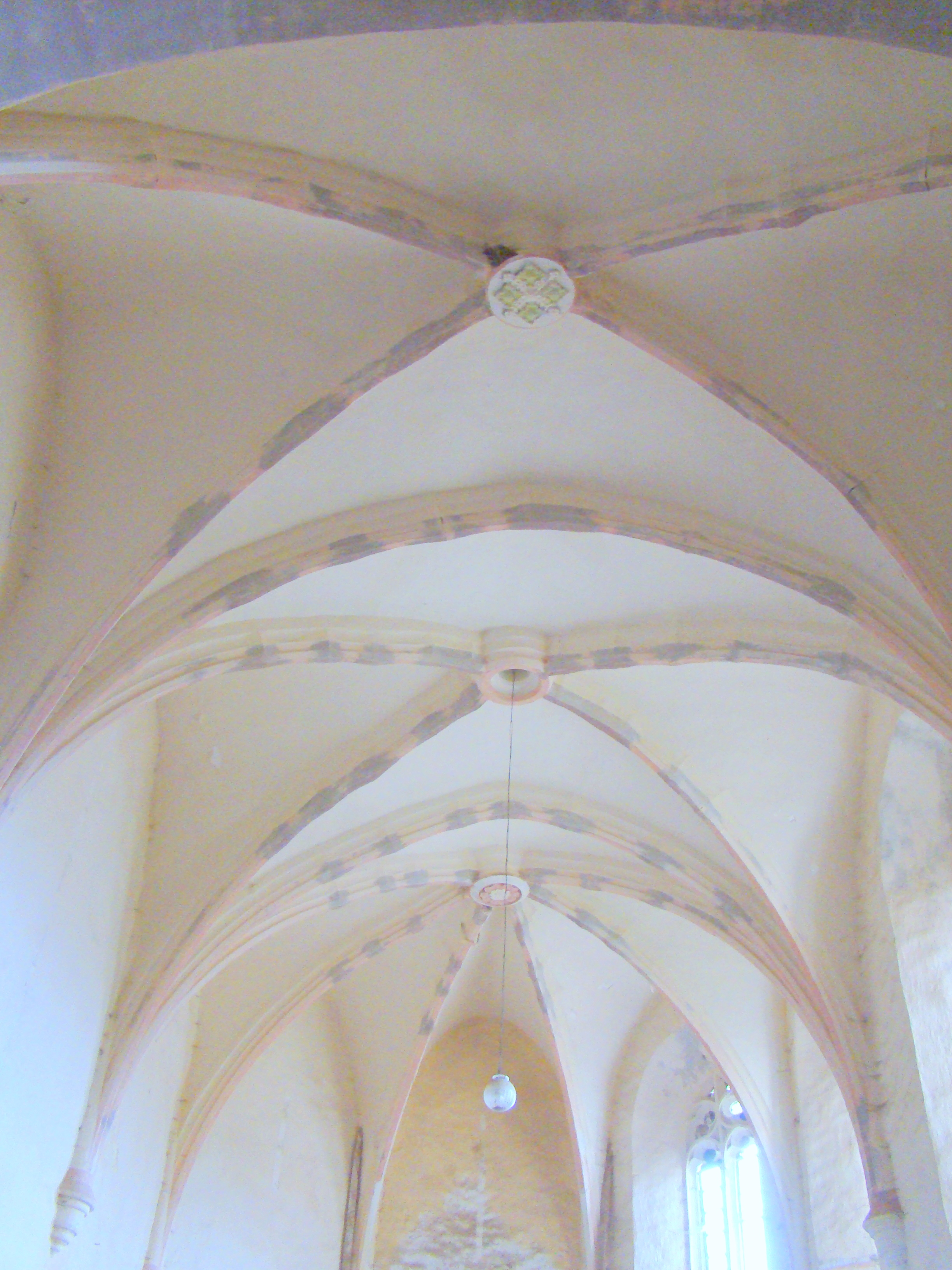 Lutheran church in Daia, Mureș county, Romania